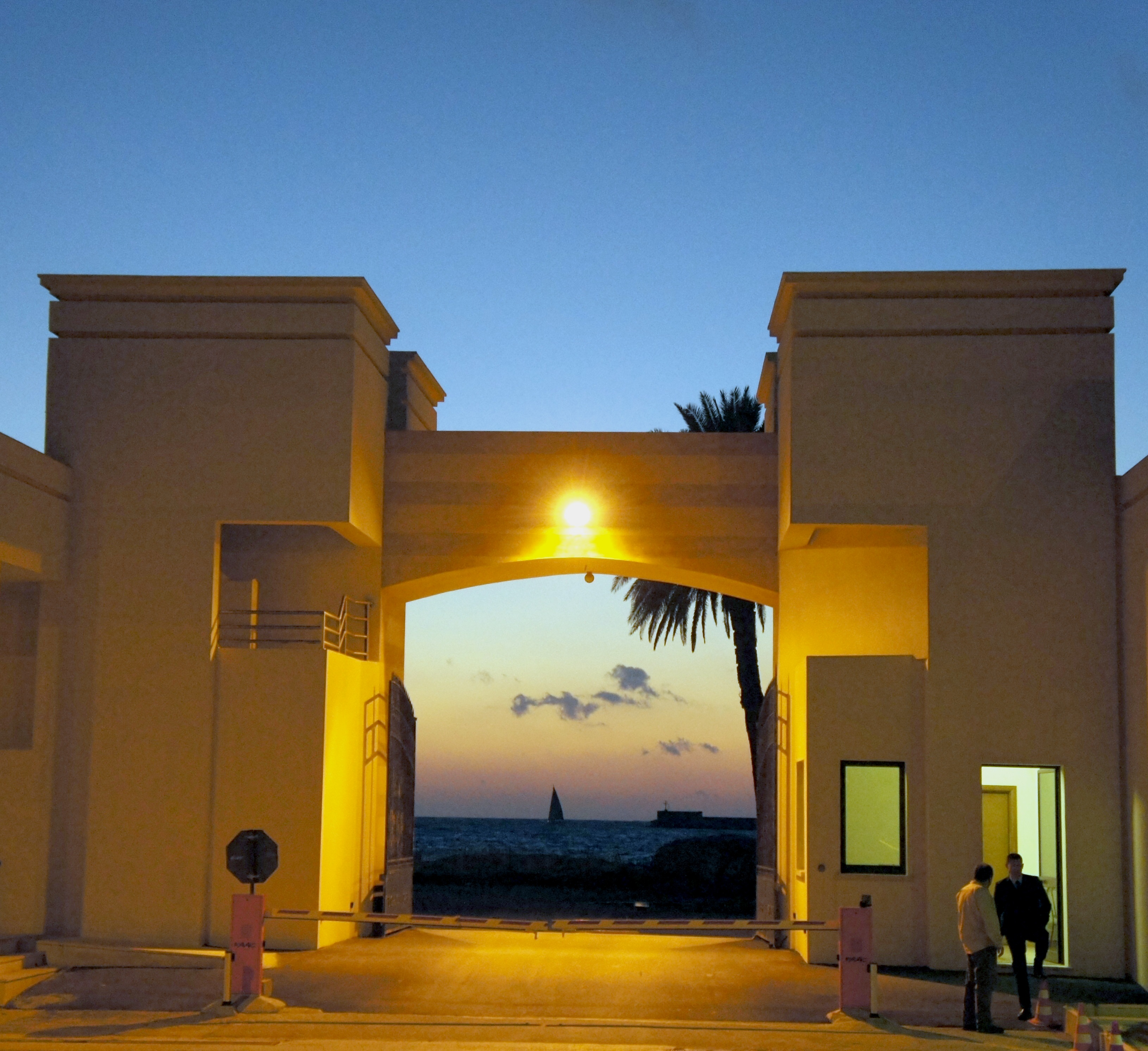 Italian winery in Sicily